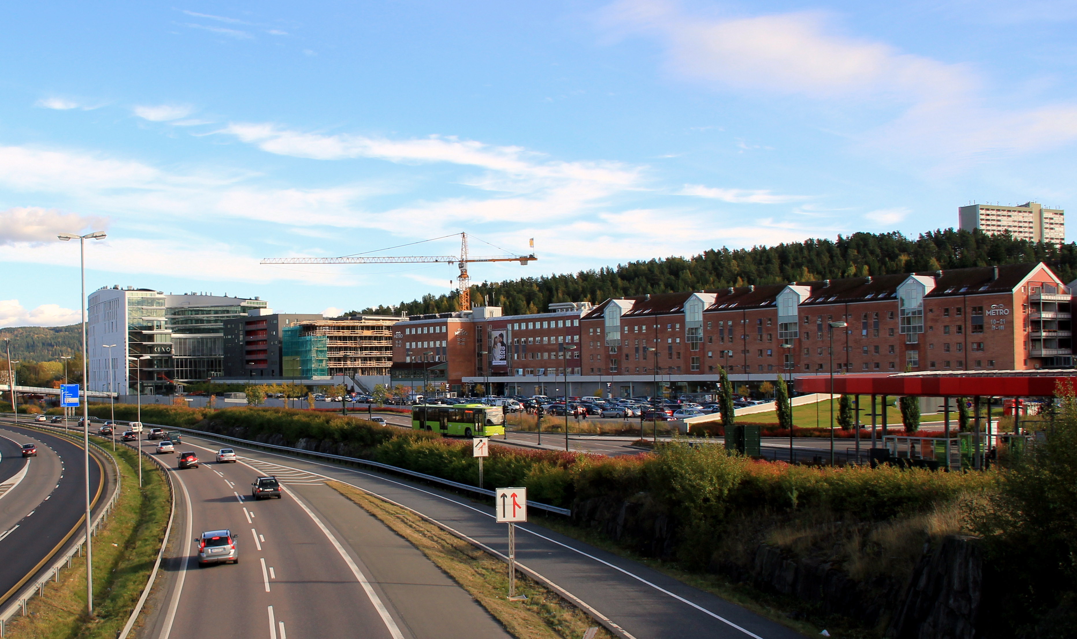 Lørenskog centre with the County hall, Lørenskog Hus and the shopping mall, Metro senter